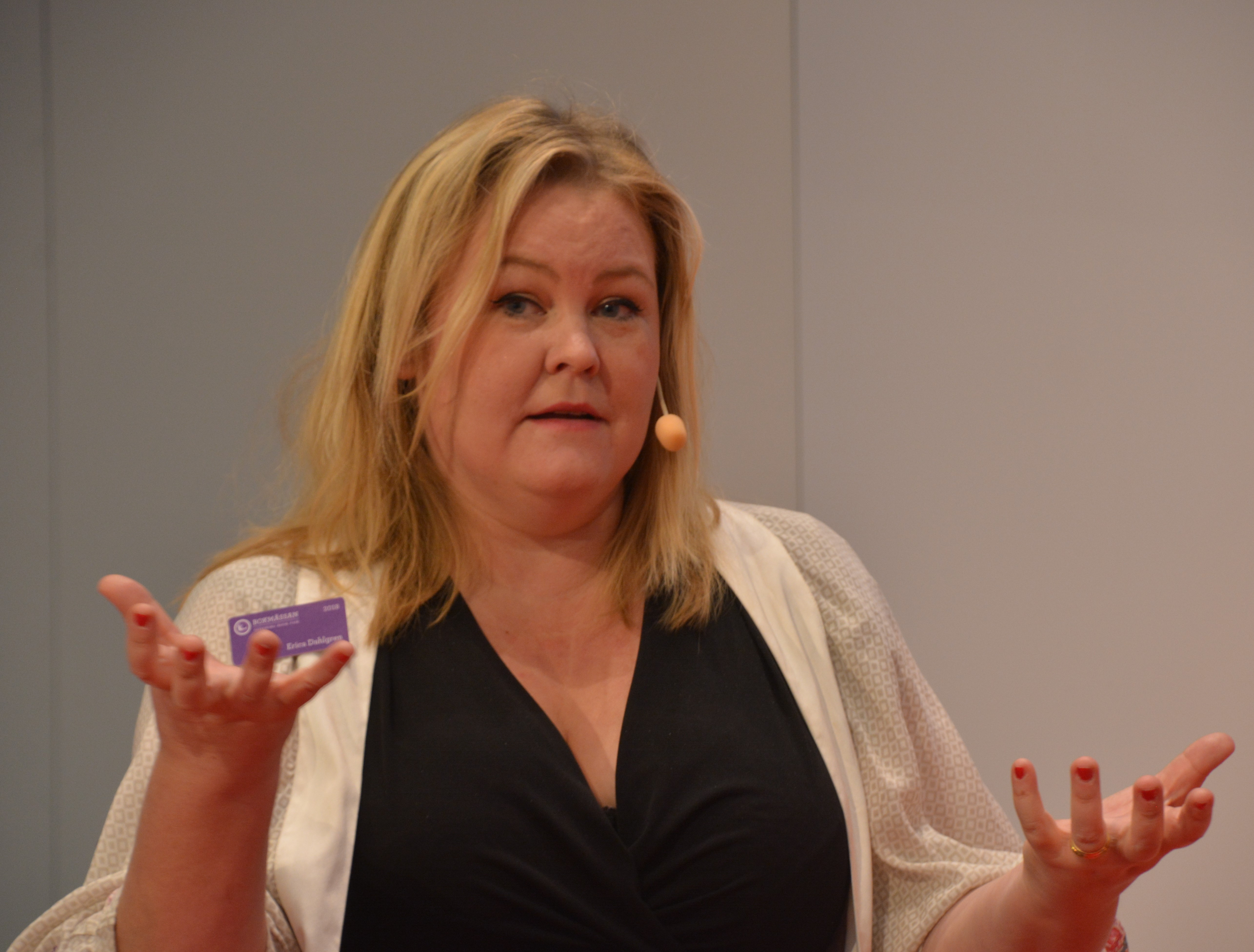 Erica Dahlgren